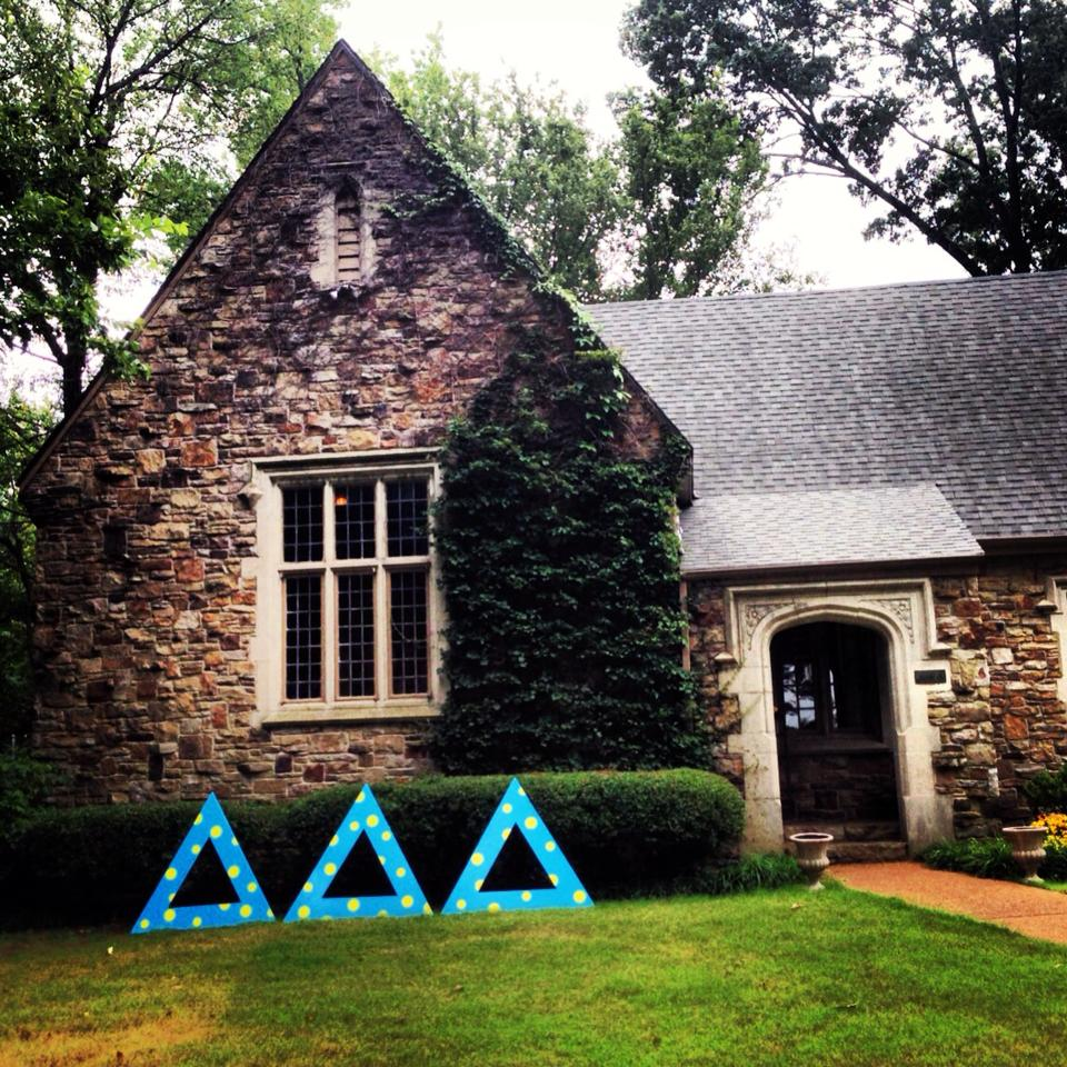 The Delta Delta Delta chapter house